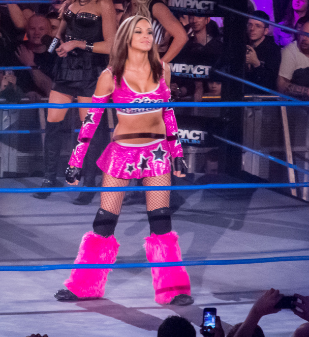 Velvet in 2013.